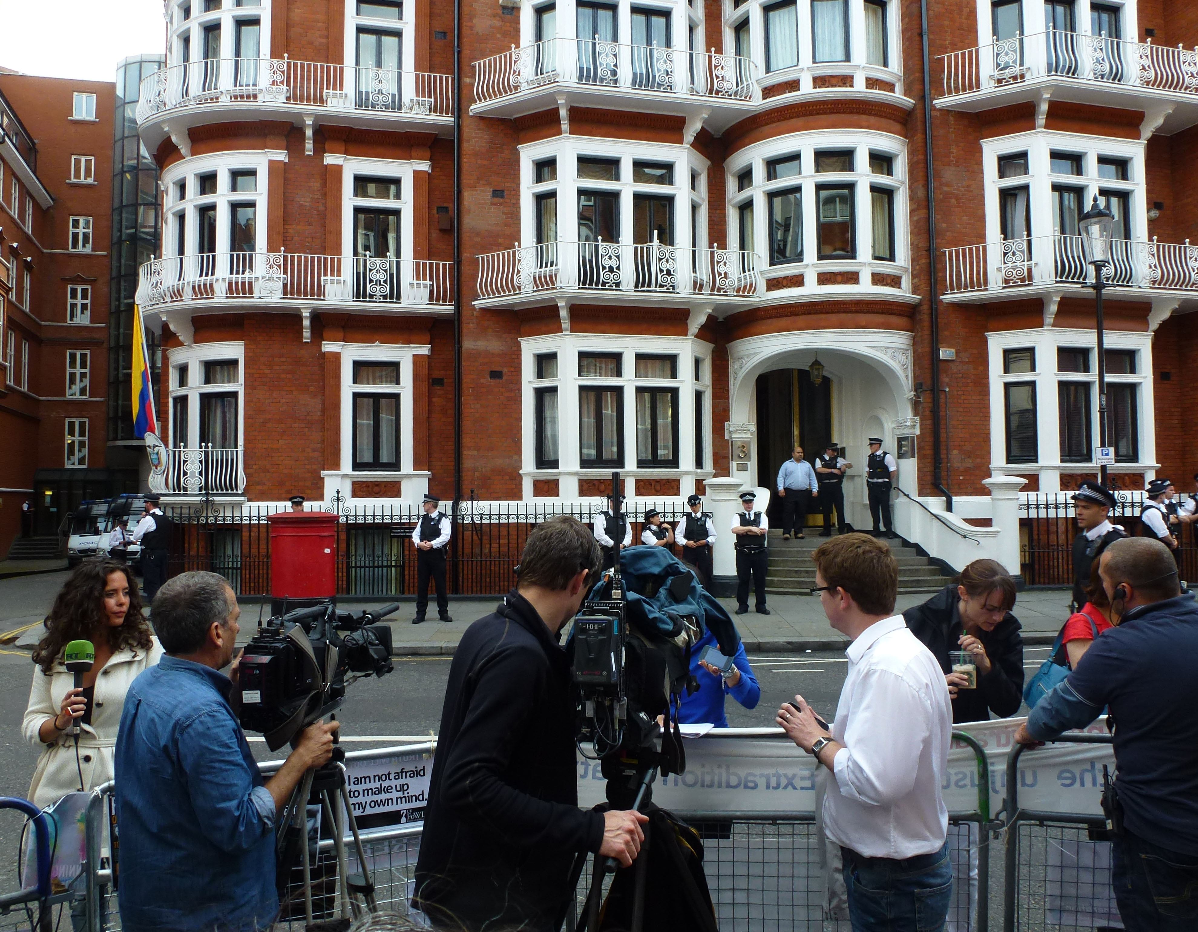 Ecuador's embassy in London, on 16 August 2012 when Ecuador was to announce whether it grants political asylum to Julian Assange. Assange was inside the embassy since 19 June 2012.